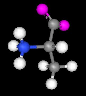 L-Ala - Ball and stick molecular graphic created by program Ghemical